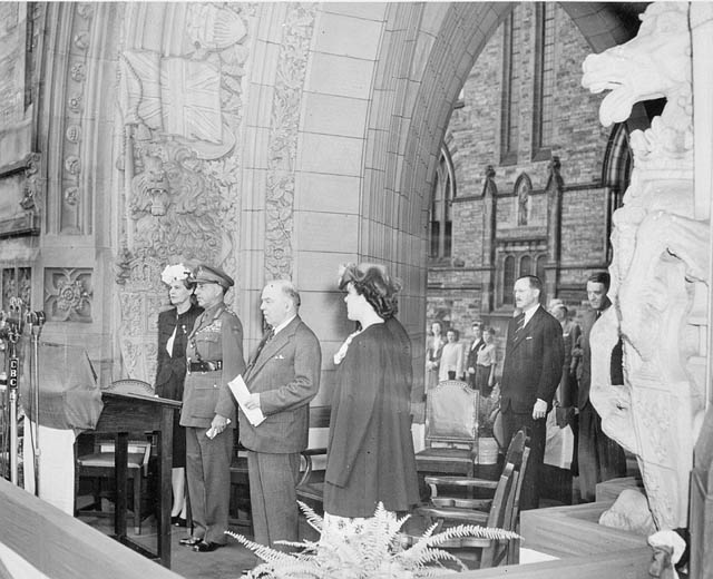 Return to Ottawa of General H.D.G. Crerar. (L-R): Mrs. Crerar, General Crerar, Rt. Hon. W.L. Mackenzie King, Mrs. H.Z. Palmer